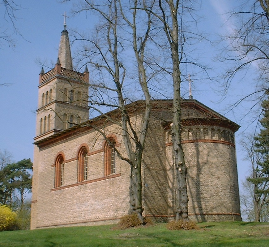 Church in Werder-Petzow in Brandenburg, Germany